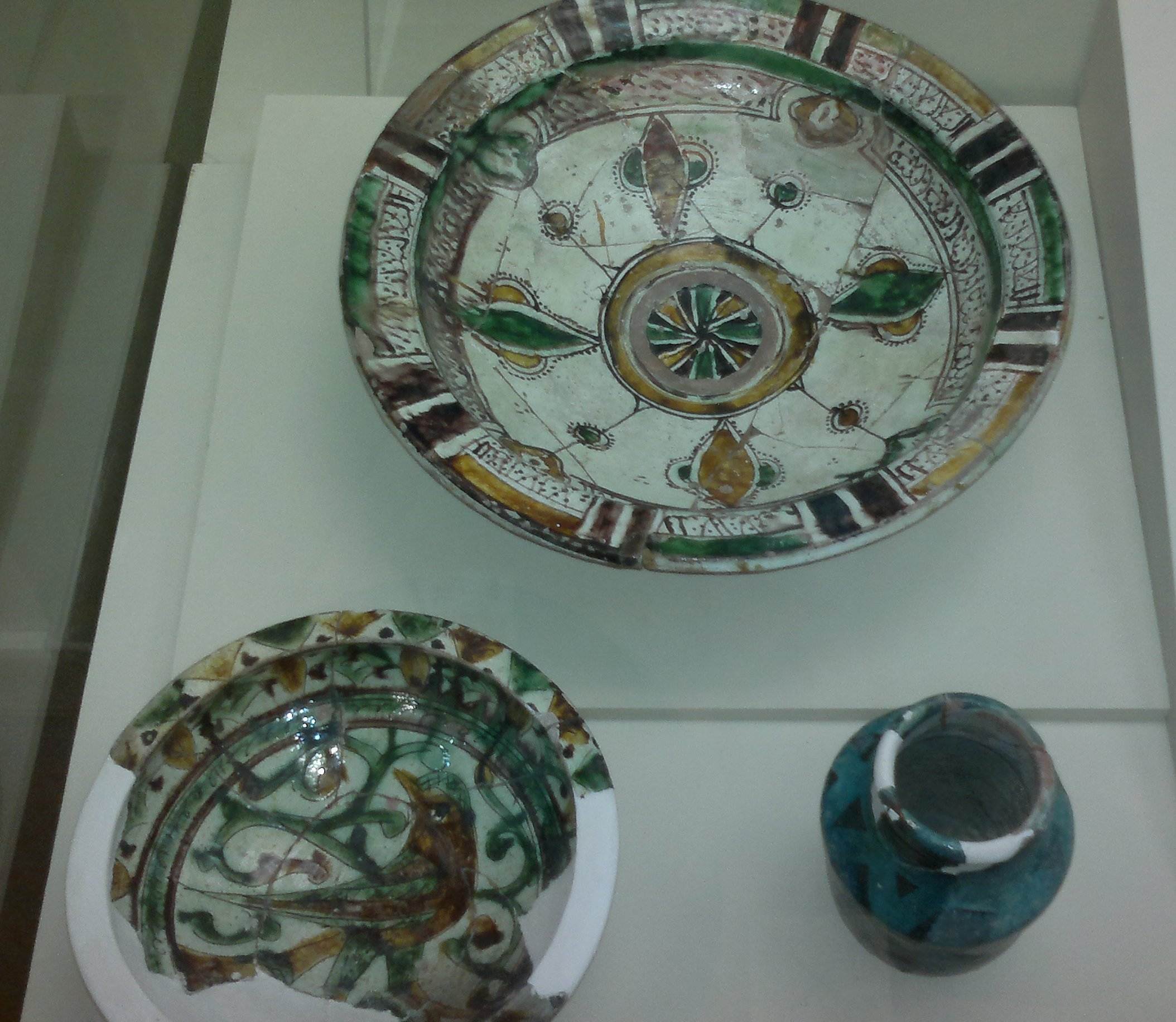 Plates and jug of Mongol period (13th-14th cc.) from Beylagan. Museum of History of Azerbaijan, Baku.